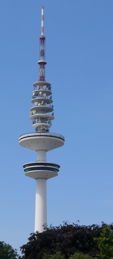 Heinrich-Hertz-Turm, Hamburg, Germany. Category:Images of Germany Captioned As {